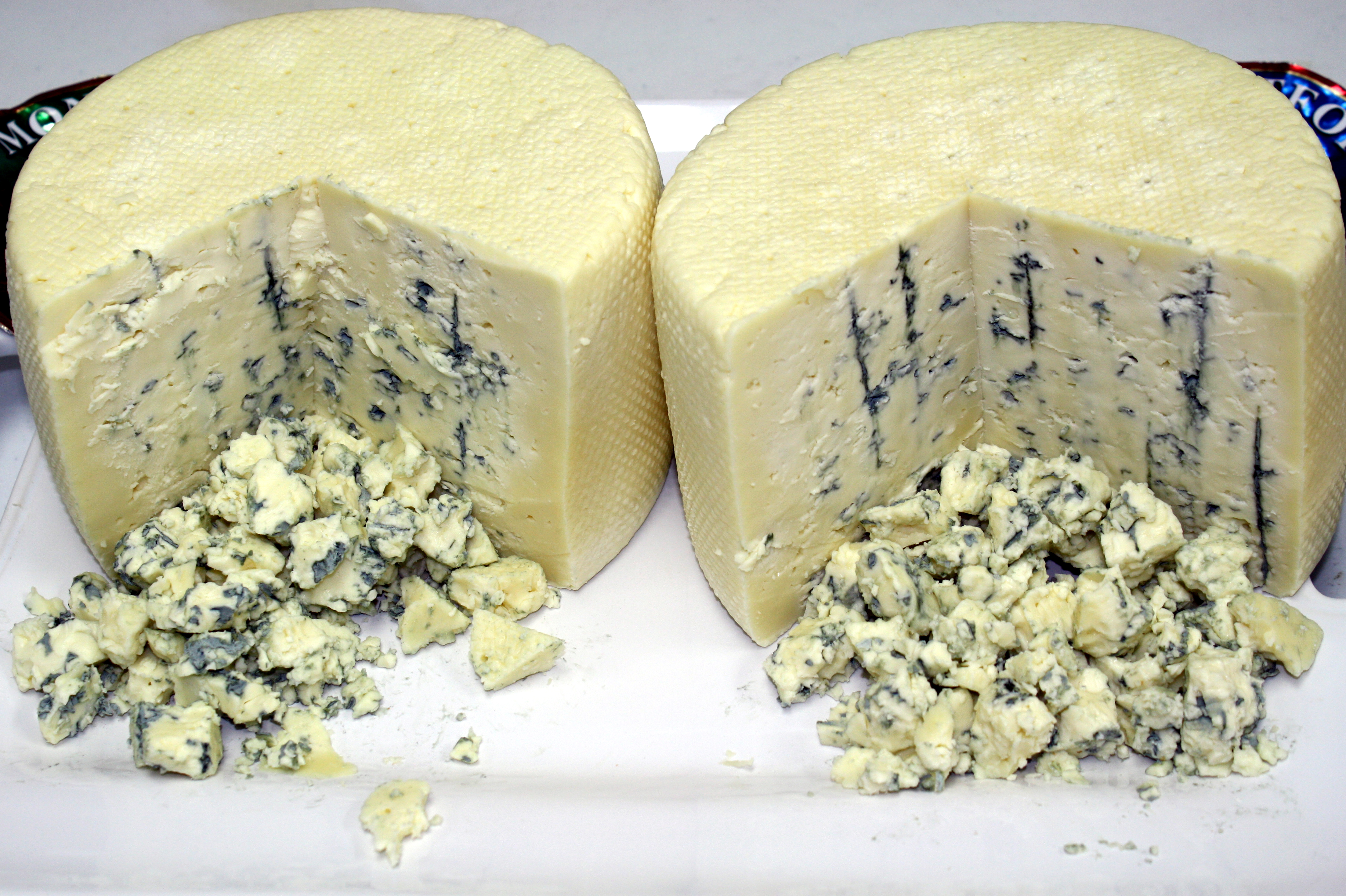 Agriculture Under Secretary for Rural Development (RD) Dallas Tonsager visited the Wisconsin Farmers Union Specialty Cheese Company in Montfort, WI on Mar. 1, 2013. The WI Farmers Union Specialty Cheese Company produces this award winning Montforte Blue Cheese. USDA photo.